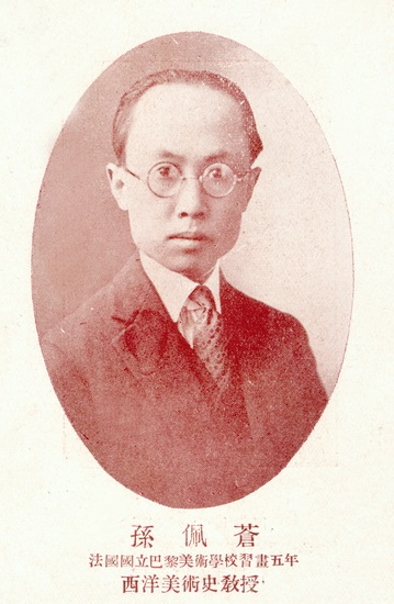 Sun Peicang